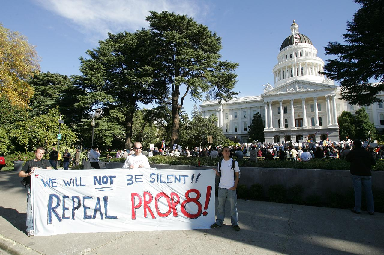 People upset by the passage of Proposition 8, the anti-gay marriage initiative, protest at the California State Capitol in Sacramento on Sunday, November 9, 2008.